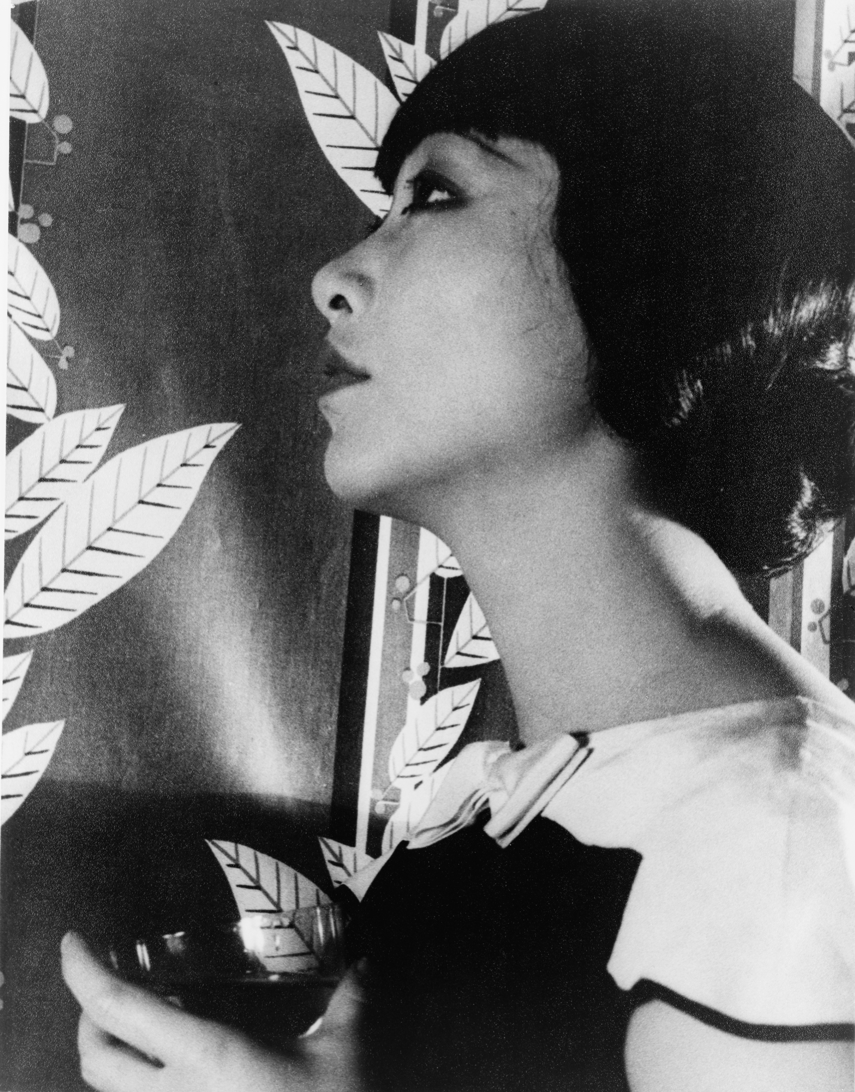 Portrait of Anna May Wong